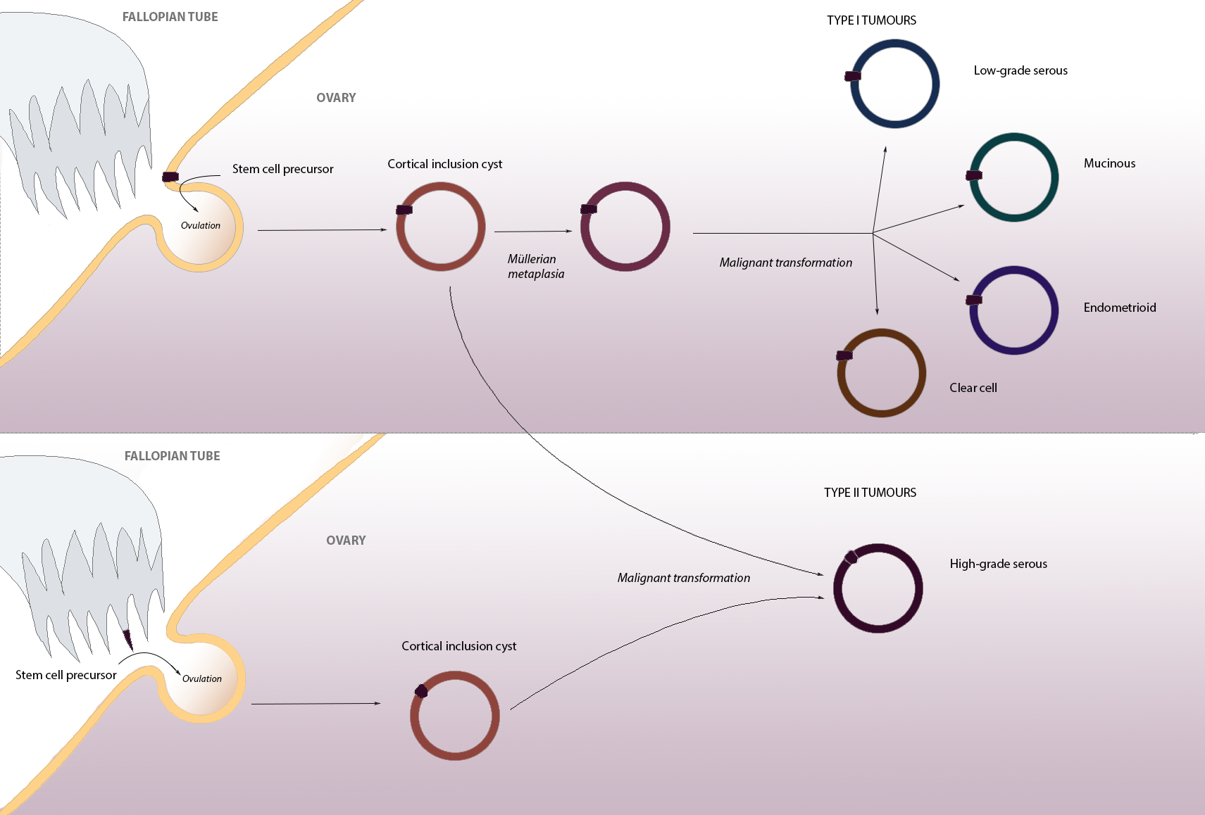 Top half depicts how a stem cell in the ovarian surface epithelium may become enclosed in the ovary during ovulation and form part of a cortical inclusion cyst (CIC). This cyst may then undergo Mullerian metaplasia followed by malignant transformation into a Type I tumour (i.e. one that has a precursor). Alternatively the CIC may simply undergo malignant transformation and develop into a Type II tumour (such as HGSC) de novo. Lower half of image describes how a fimbrial stem cell (or insome cases a serous tubal intraepithelial carcinoma) may become enclosed in the ovary during ovulation and form part of a cortical inclusion cyst that can undergo malignant transformation into a Type II tumour.